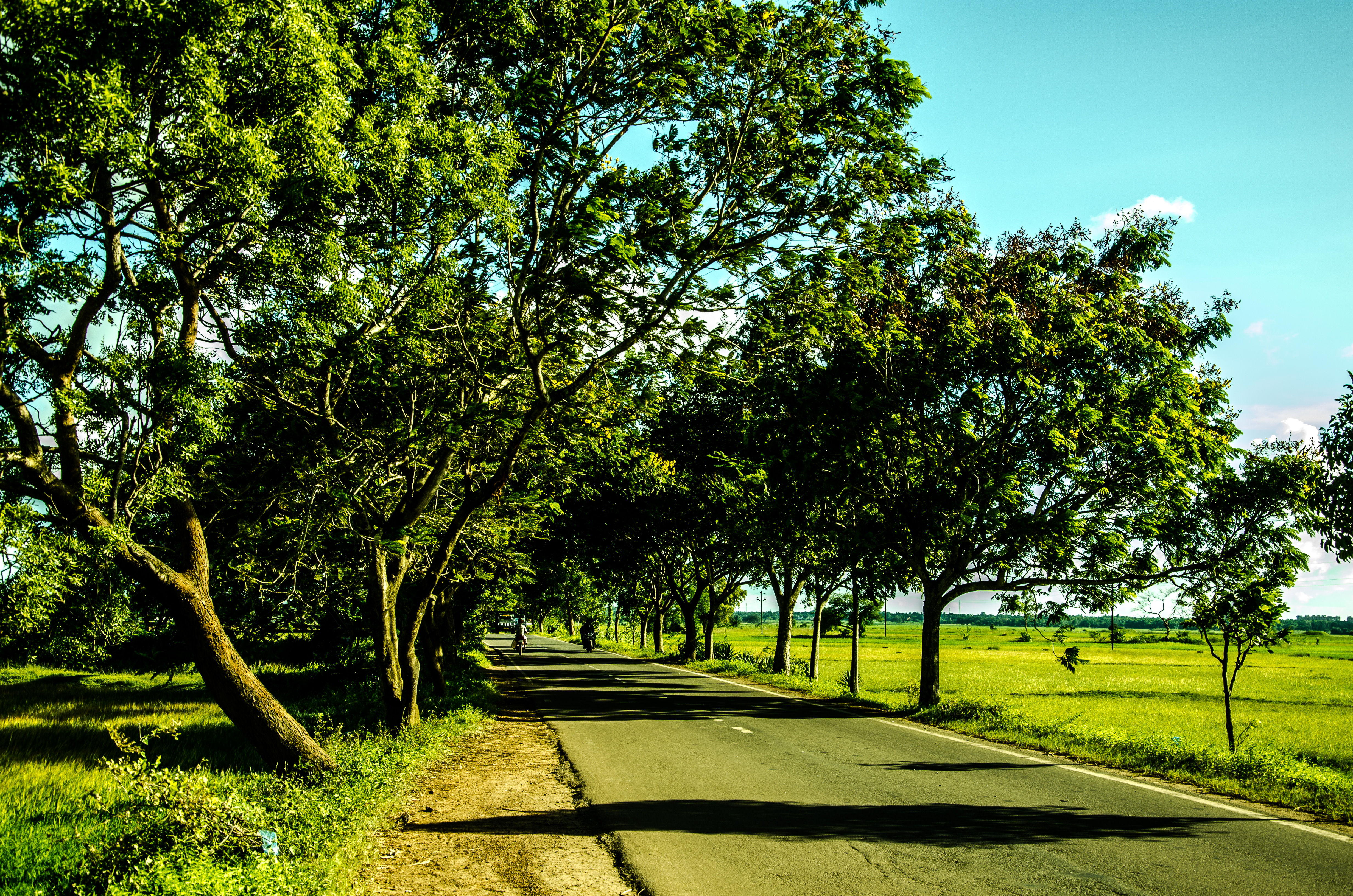 Talakheta Road,one of the road connecting Jatani and NH5